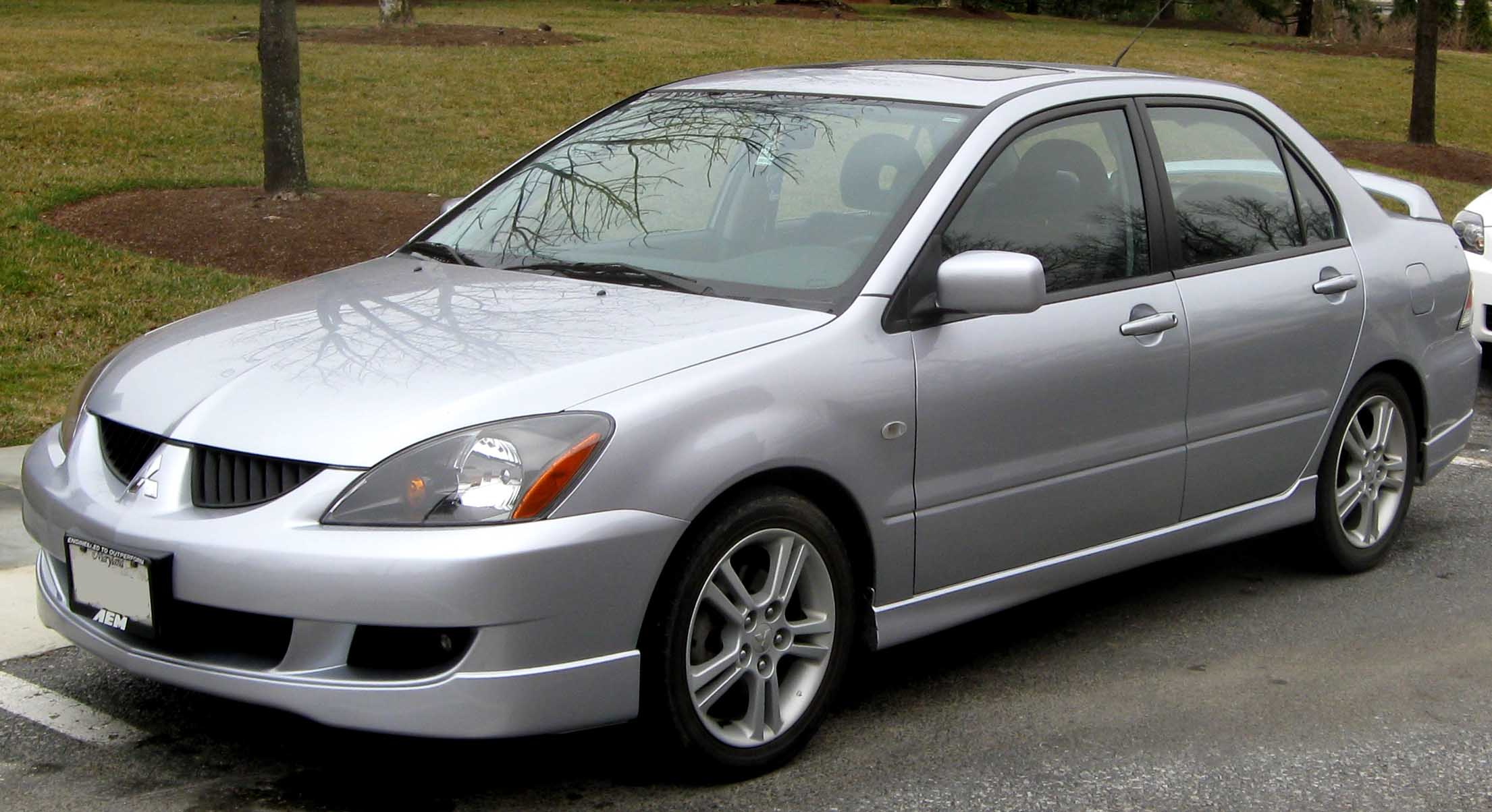 2004-2005 Mitsubishi Lancer photographed in College Park, Maryland, USA.